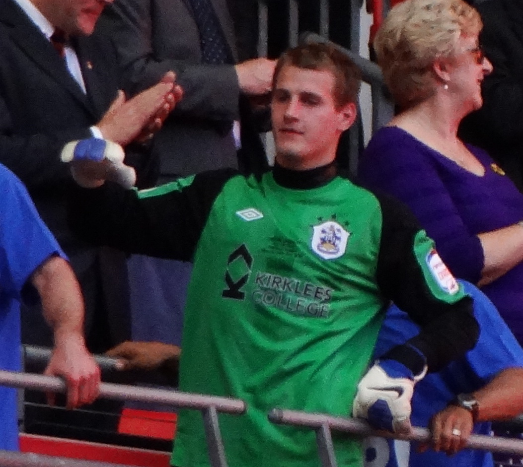 Alex Smithies, collecting his medal after the 2012 Football League One play-off Final